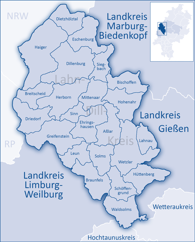 The map shows a district in the area of Lahn-Dill-Kreis